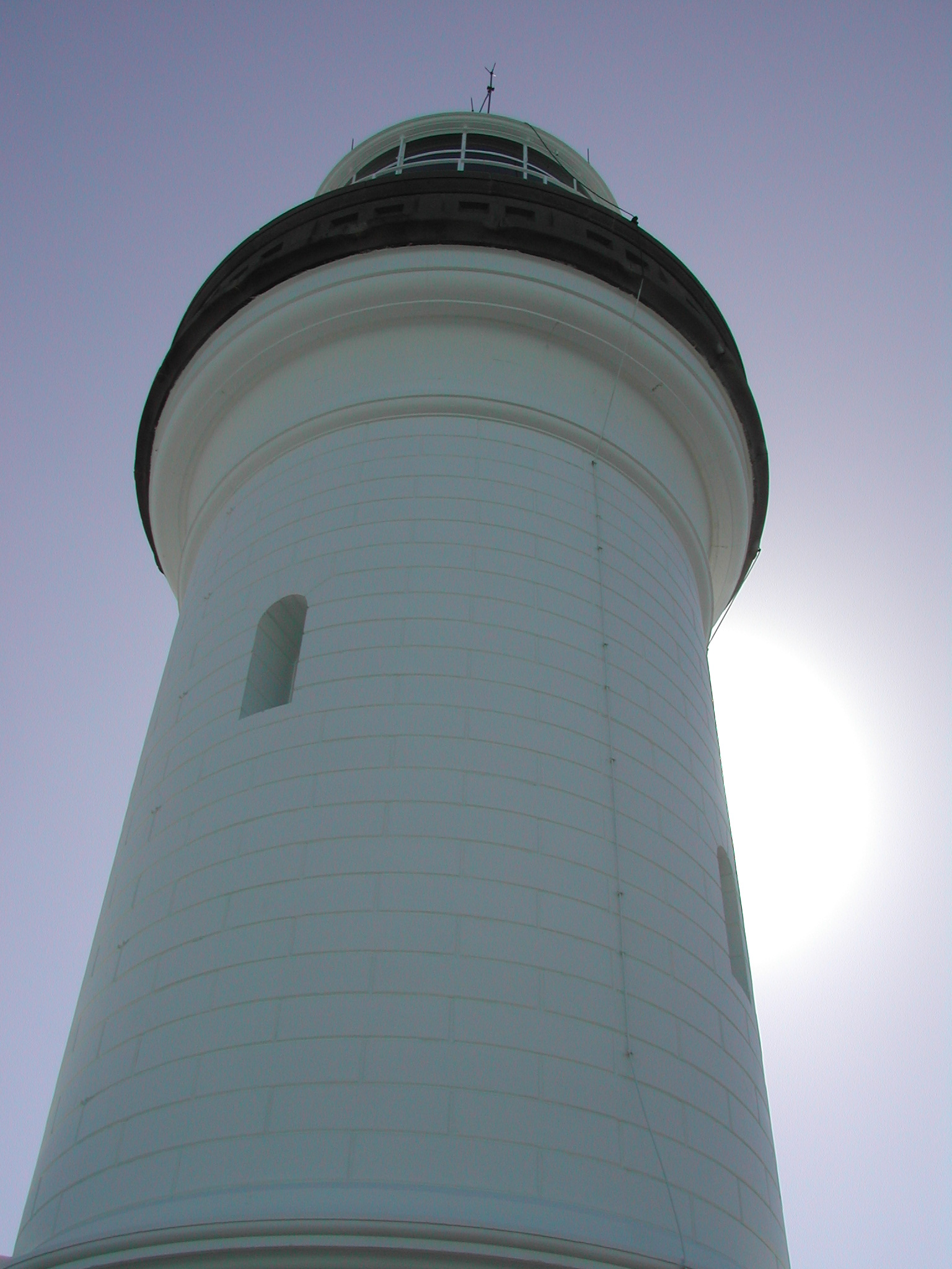 The Byron Bay Lighthouse, providing a nice shade.